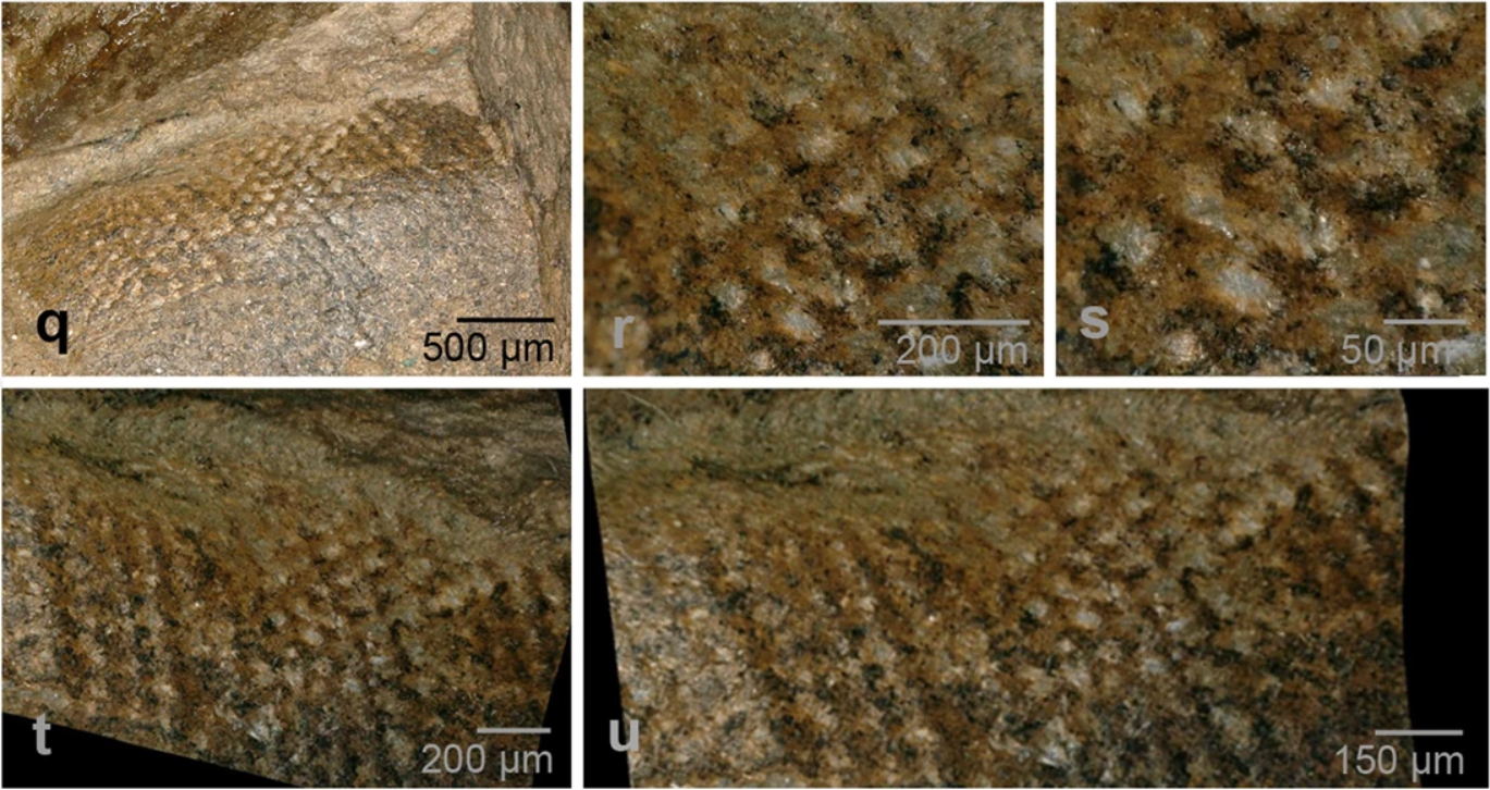 Close-up of impressions and fossilizations of the eyes of eurypterid Jaekelopterus rhenaniae